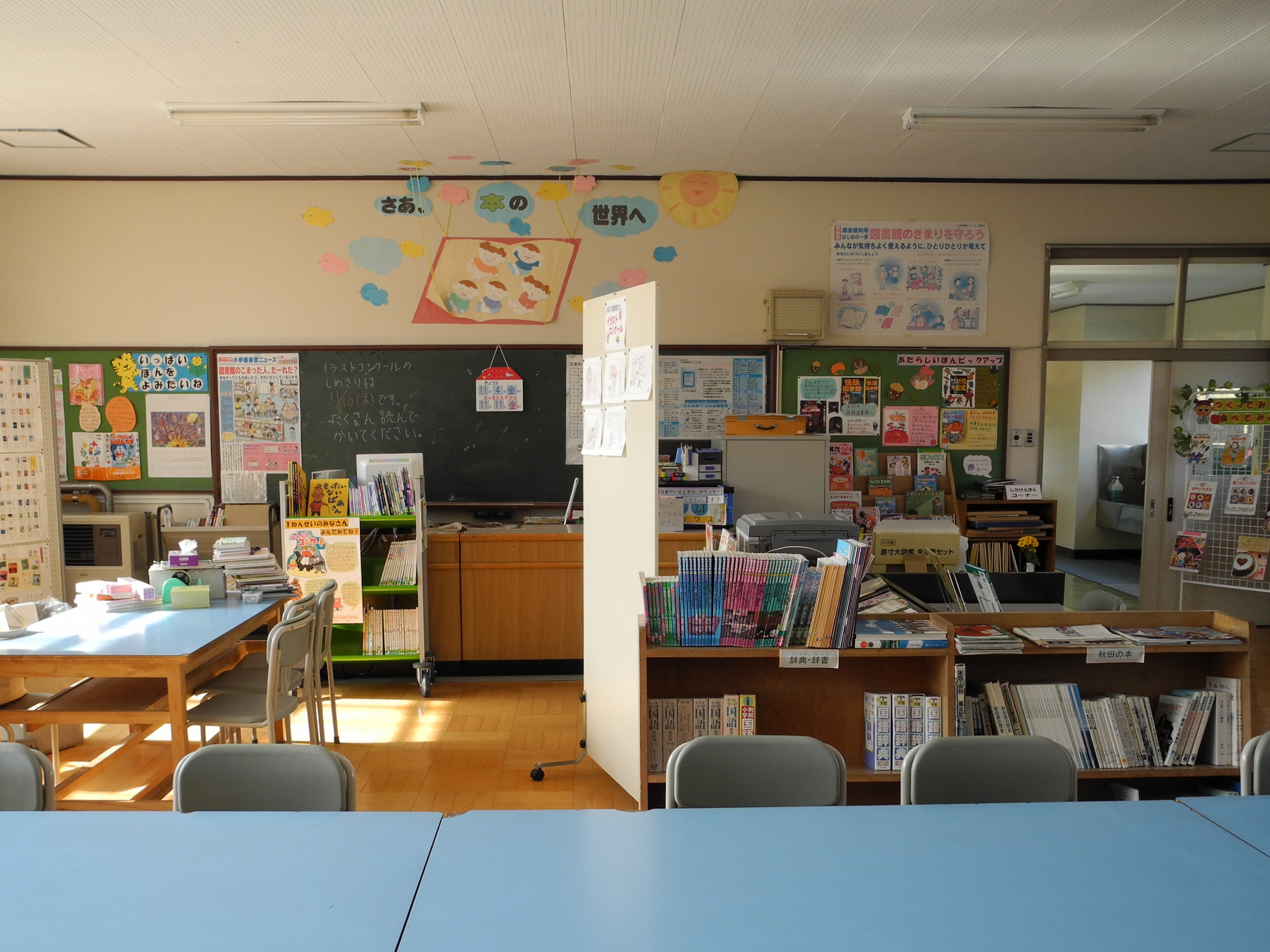 Front of library. Jinego Elementary School. Kami-Jinego, Chokai, Yurihonjo, Akita, Japan.